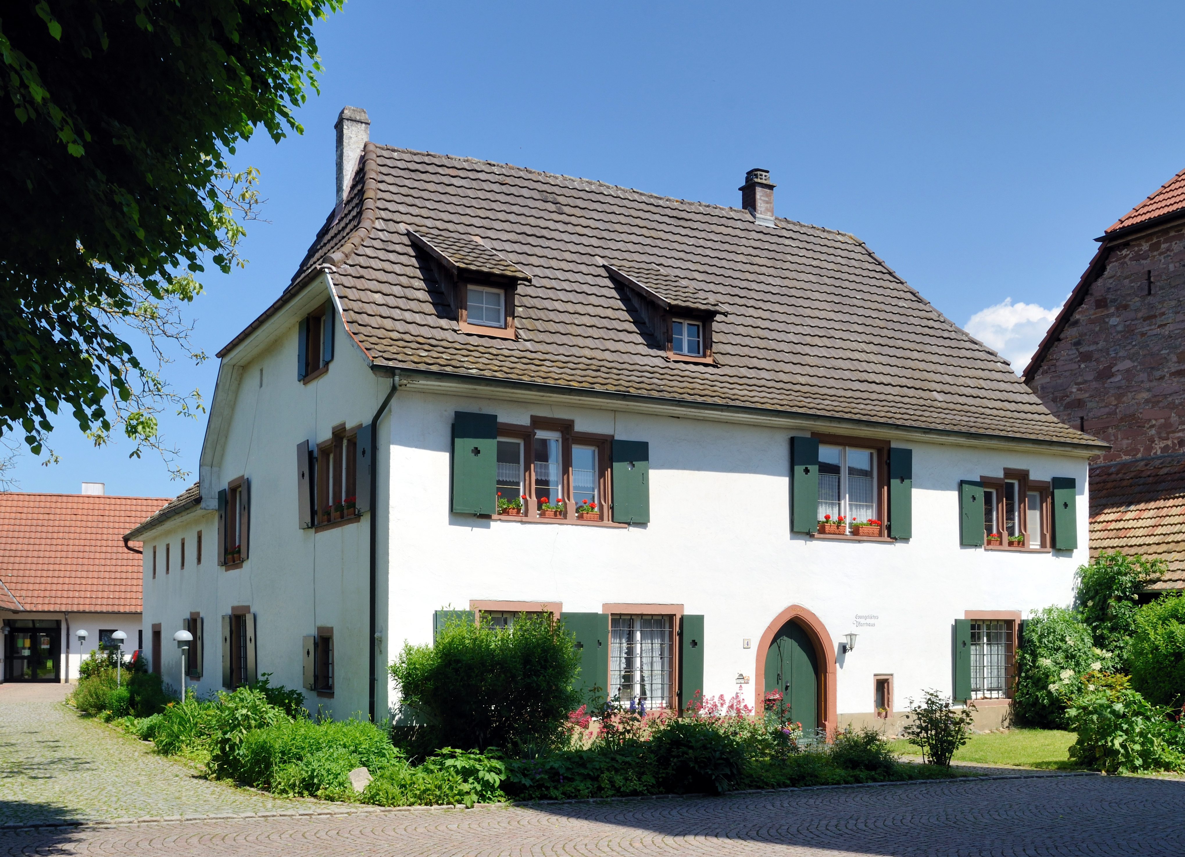 Hauingen: rectory